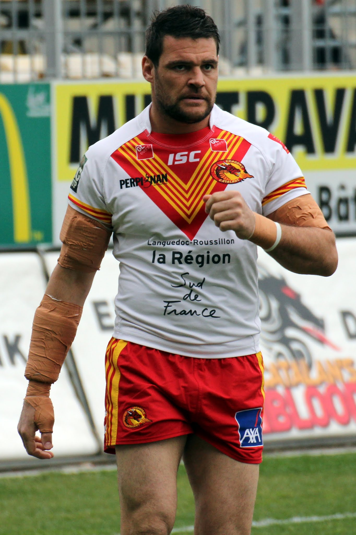 French rugby league player, David Ferriol.